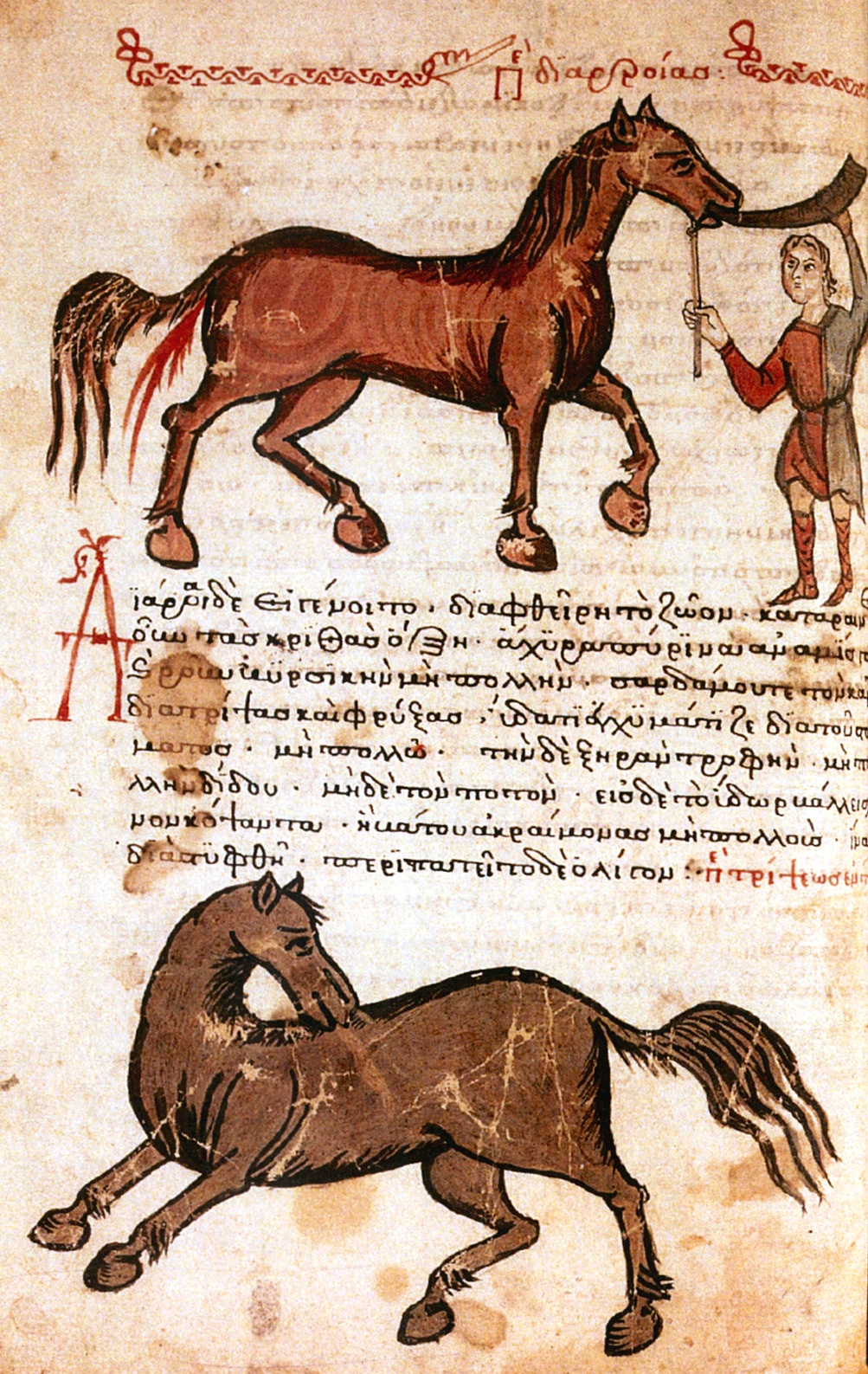 A drench for diarrhoea (Hippiatrica, Parisinus greacus 2244, fo. 74v)